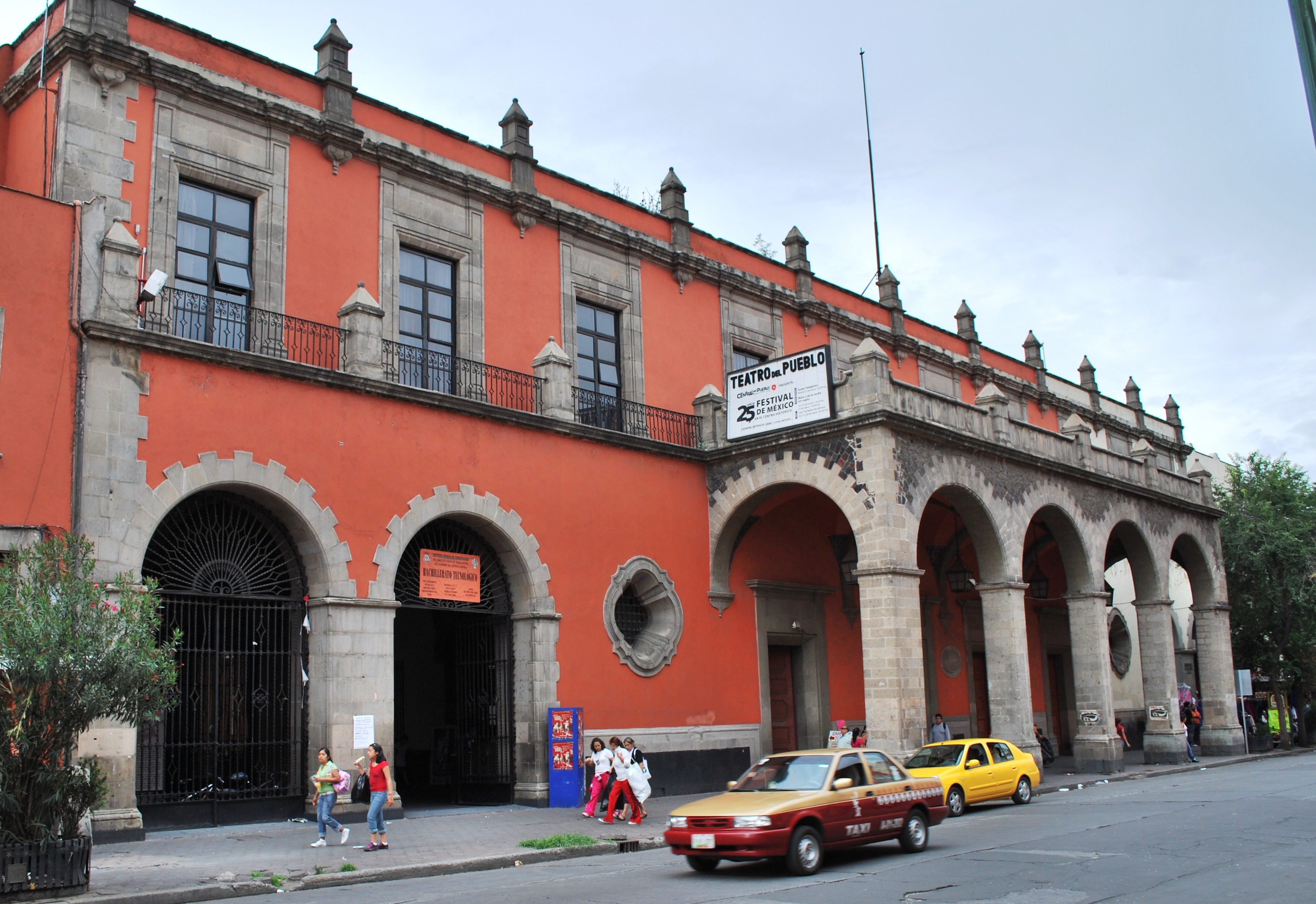 Facade of the Teatro del Pueblo located on Republica de Venezuela Street